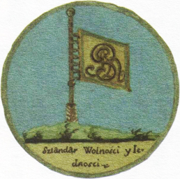 Coat of Arms of Pierabrodździe (1792)